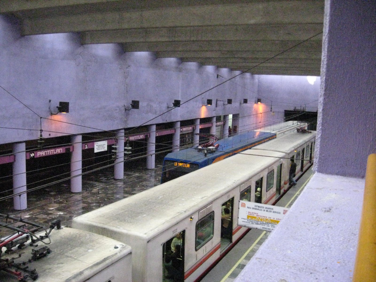 View of terminal platform for at Metro Pantitlan Line A section which is part of the Mexico City Metro system